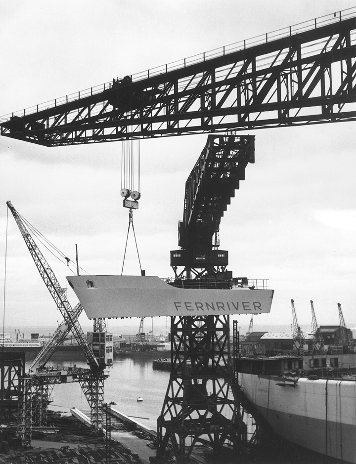 Lifting the forecastle unit of the bulk carrier ‘Fernriver’ into place at the North Sands shipyard, Sunderland, 9 September 1966 (TWAM ref. DS.JLT/4/PH/1/718/5). This set celebrates the achievements of the famous Sunderland shipbuilding firm Joseph L. Thompson & Sons. The company’s origins date back to 1846 when the firm was known as Robert Thompson & Sons. Robert Thompson senior died in 1860, leaving his second son Joseph Lowes Thompson in control. In 1870 the shipyard completed its last wooden vessel and was then adapted for iron shipbuilding. By 1880 the firm had expanded its operations over much of North Sands and in 1884 completed the construction of Manor Quay, which served as fitting out and repair facilities. For many years in the late nineteenth century the yard was the most productive in Sunderland and in 1894 had the fourth largest output of any shipyard in the world. The Depression affected the firm severely in the early 1930s and no vessels were launched from 1931 to 1934. However, during those years the company developed a hull design giving greater efficiency and economy in service. During the Second World War the prototype developed by Joseph L. Thompson & Sons proved so popular that it was used by the US Government as the basis of over 2,700 Liberty ships built at American shipyards between 1942 and 1945. After the War the North Sands shipyard went on to build many fine cargo ships, oil tankers and bulk carriers. Sadly the shipyard closed in 1979, although it briefly reopened in 1986 to construct the crane barge ITM Challenger. (Copyright) We're happy for you to share these digital images within the spirit of The Commons. Please cite 'Tyne & Wear Archives & Museums' when reusing. Certain restrictions on high quality reproductions and commercial use of the original physical version apply though; if you're unsure please